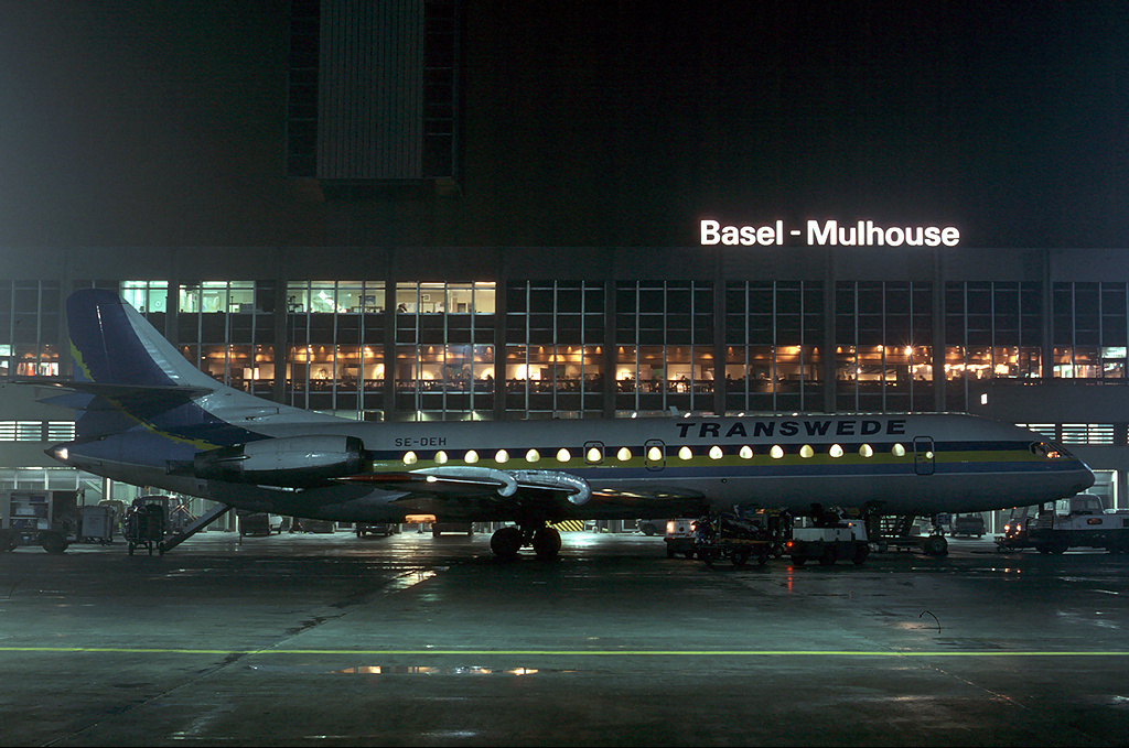 A Transwede Sud Aviation Caravelle 10B3 Super B at Euroairport (Basel, Muelhouse, Freiburg)